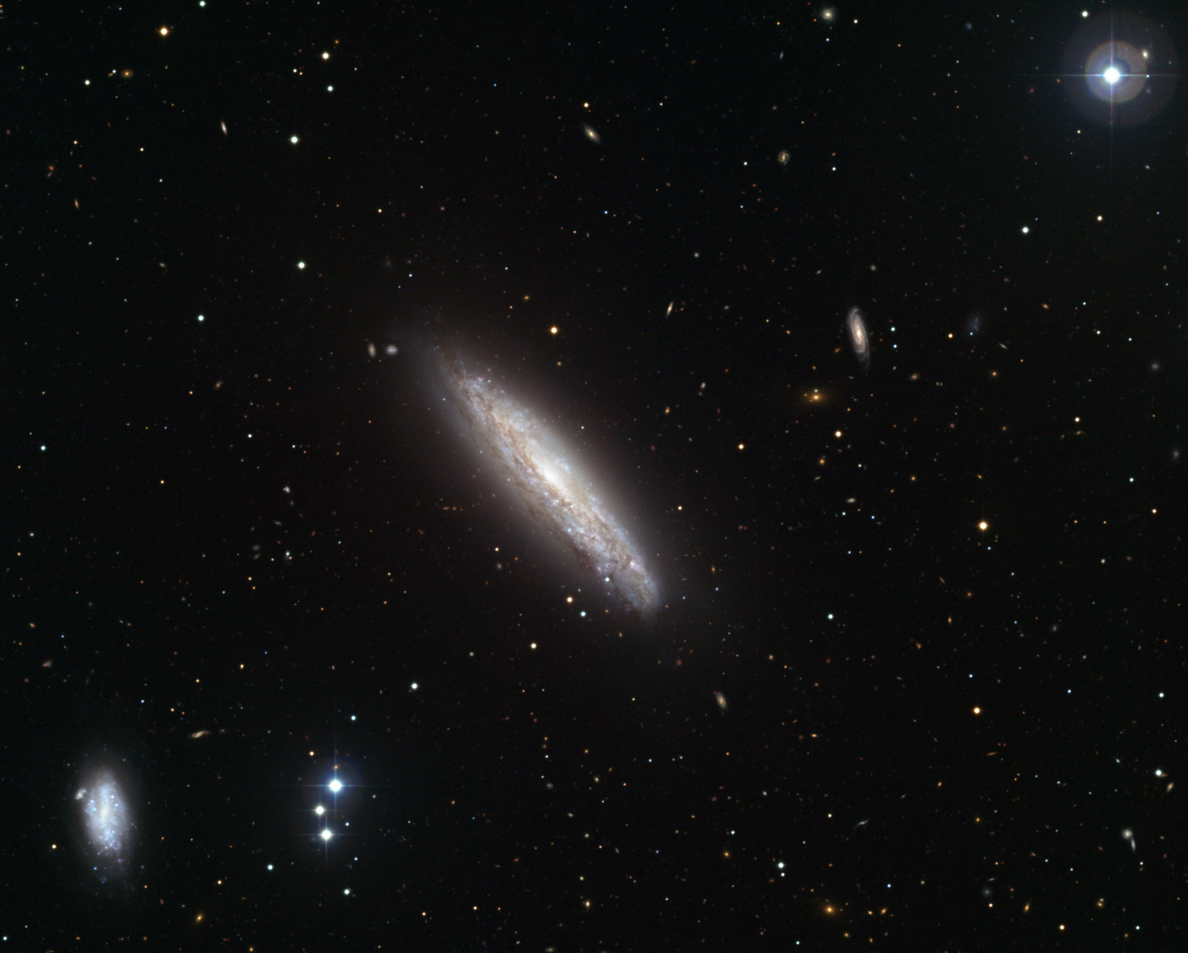 This visible light image, made with the Wide Field Imager on the MPG/ESO 2.2-metre telescope at the La Silla Observatory in Chile, shows the galaxy NGC 4666 in the centre. It is a starburst galaxy, about 80 million light-years from Earth, in which particularly intense star formation is taking place. The starburst is thought to be caused by gravitational interactions with neighbouring galaxies, including NGC 4668, visible to the lower left. A combination of supernova explosions and strong winds from massive stars in the starburst region drives a vast outflow of gas from the galaxy into space — a so-called “superwind”. NGC 4666 had previously been observed in X-rays by the ESA XMM-Newton space telescope, and these visible light observations were made to target background objects detected in the earlier X-ray images. This picture, which covers a field of 16 by 12 arcminutes, is a combination of twelve CCD frames, 67 megapixels each, taken through blue, green and red filters.